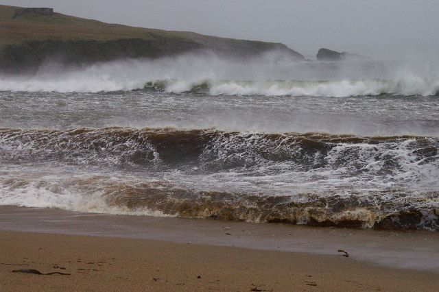 Skaw beach in a storm The wind is westerly or south-westerly and the beach faces east, but the wind is so strong that there is a considerable sea.